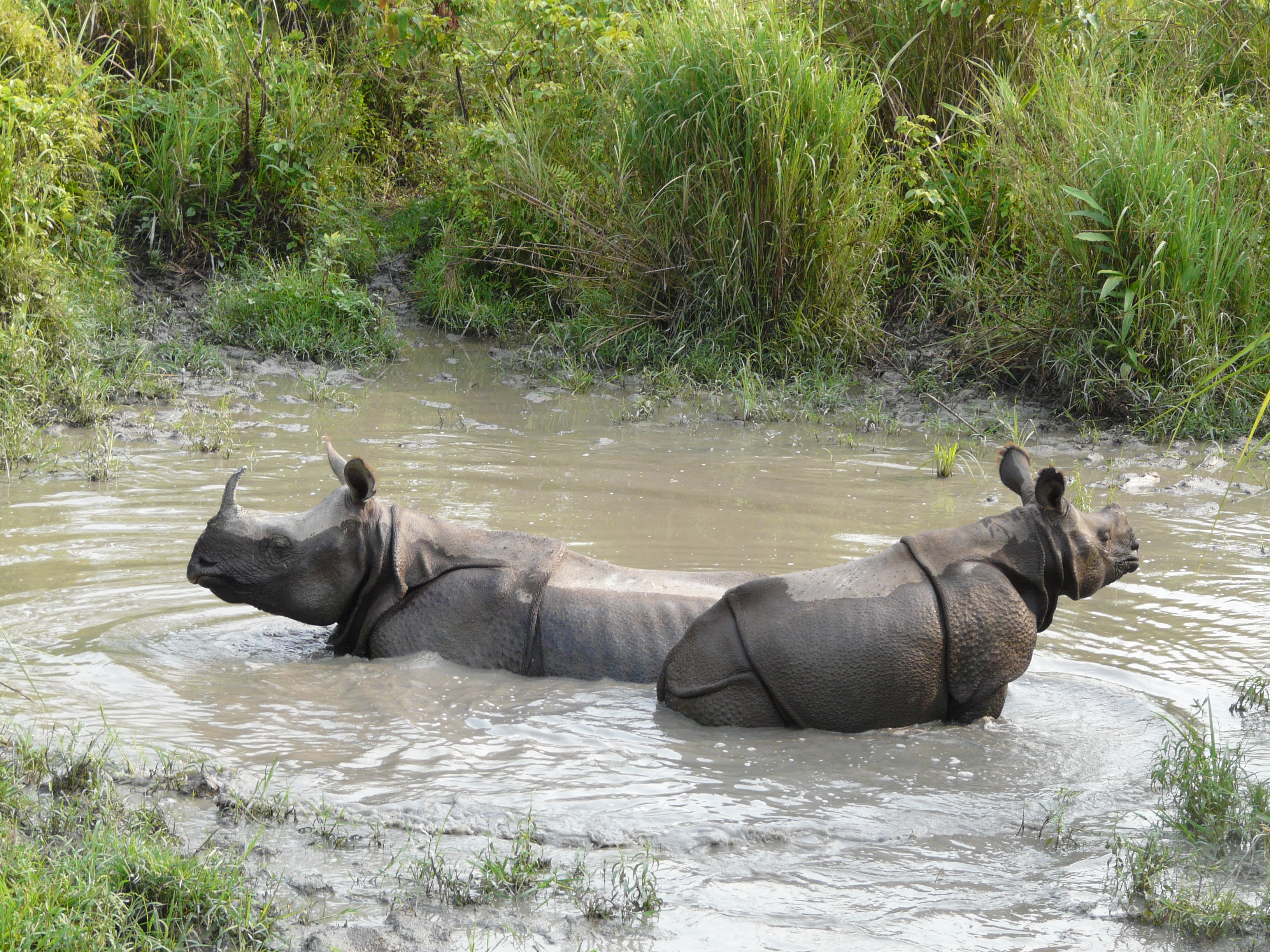 Wallowing is important for rhinos in summer months-- mother and a calf in Jaldapara Wildlife Sanctuary, Assam